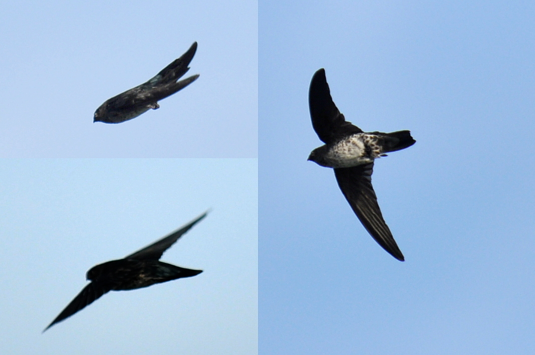 Glossy Swiftlet (Collocalia esculenta) in flight.